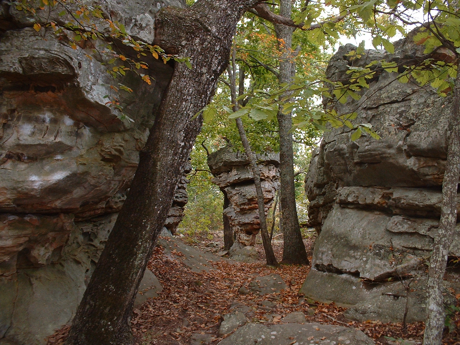 Unusual but typical rock formations of Rocktown, GA in the Crockford-Pigeon Mountain Wildlife Management Area. Photo taken in September of 2003.